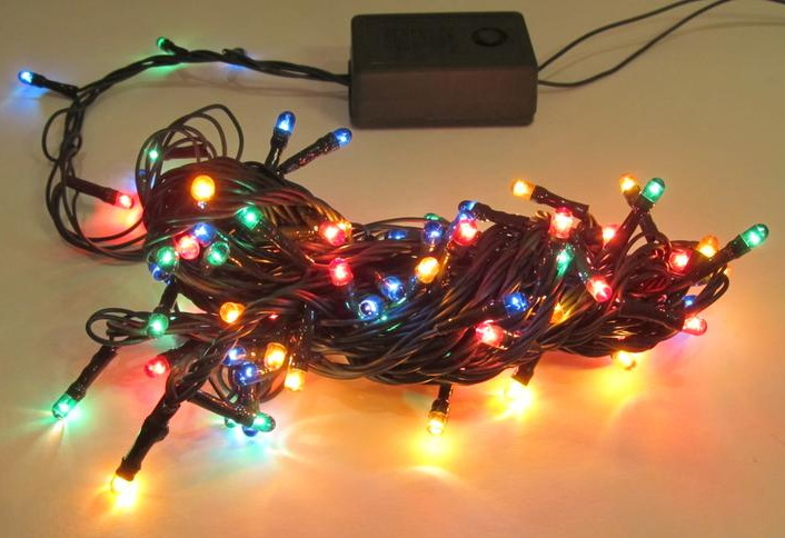 electric garland